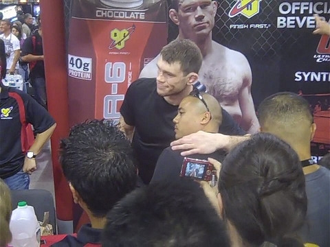 Forrest Griffin with fans - UFC 100 Fan Expo - Mandalay Bay Casino, Las Vegas